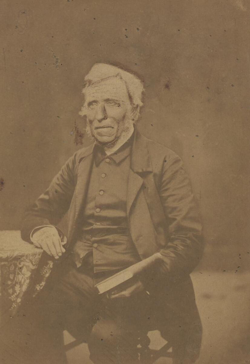 A portrait from the Welsh Portrait Collection at the National Library of Wales. Depicted person: William Rowlands – Welsh Methodist minister and bibliographer